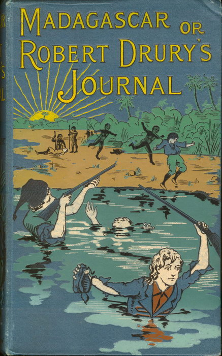 Madagascar; or Robert Drury's Journal During Fifteen Years' Captivity on that Island